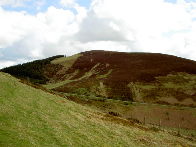 Foel Fenlli A view of Foel Fenlli from the Offa's Dyke path. Foel Fenlli is one of many iron-age hill-forts in the area, including nearby Moel y Gaer and Moel Arthur. The footpath erosion that caused the rerouting of Offa's Dyke Path around the summit of Foel Fenlli is visible on the slopes.